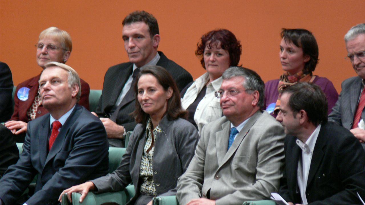 Jean-Marc Ayrault, Ségolène Royal and Jacques Auxiette, president of Pays de la Loire region